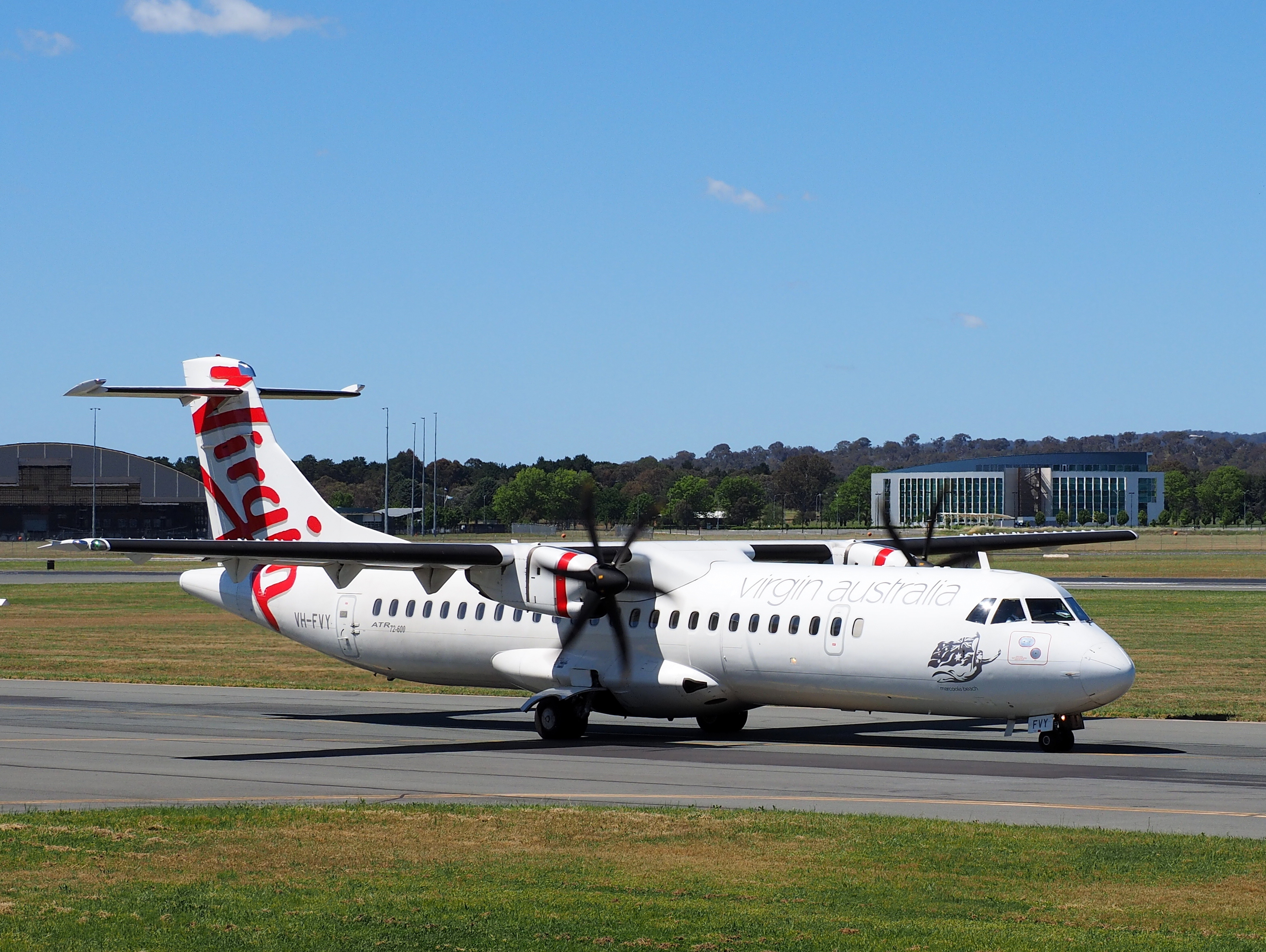 Virgin Australia ATR 72-600 VH-VFY taxiing to take off at Canberra Airport